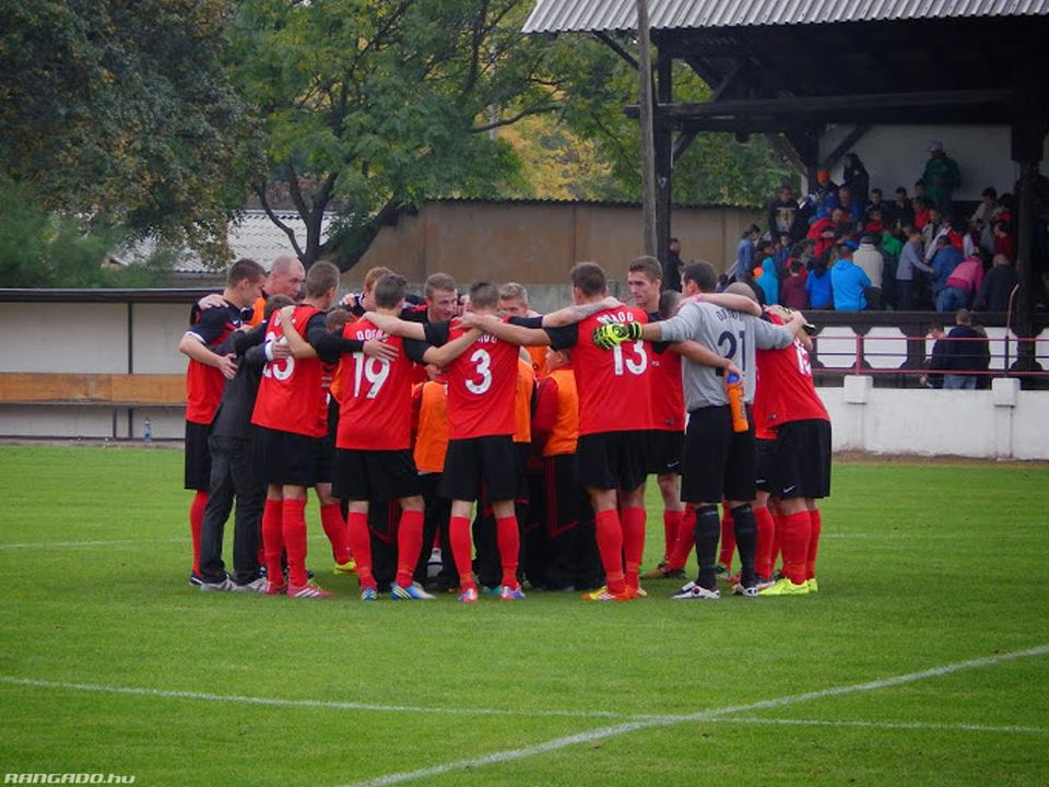 FC Dorog finished at first place after the fall season